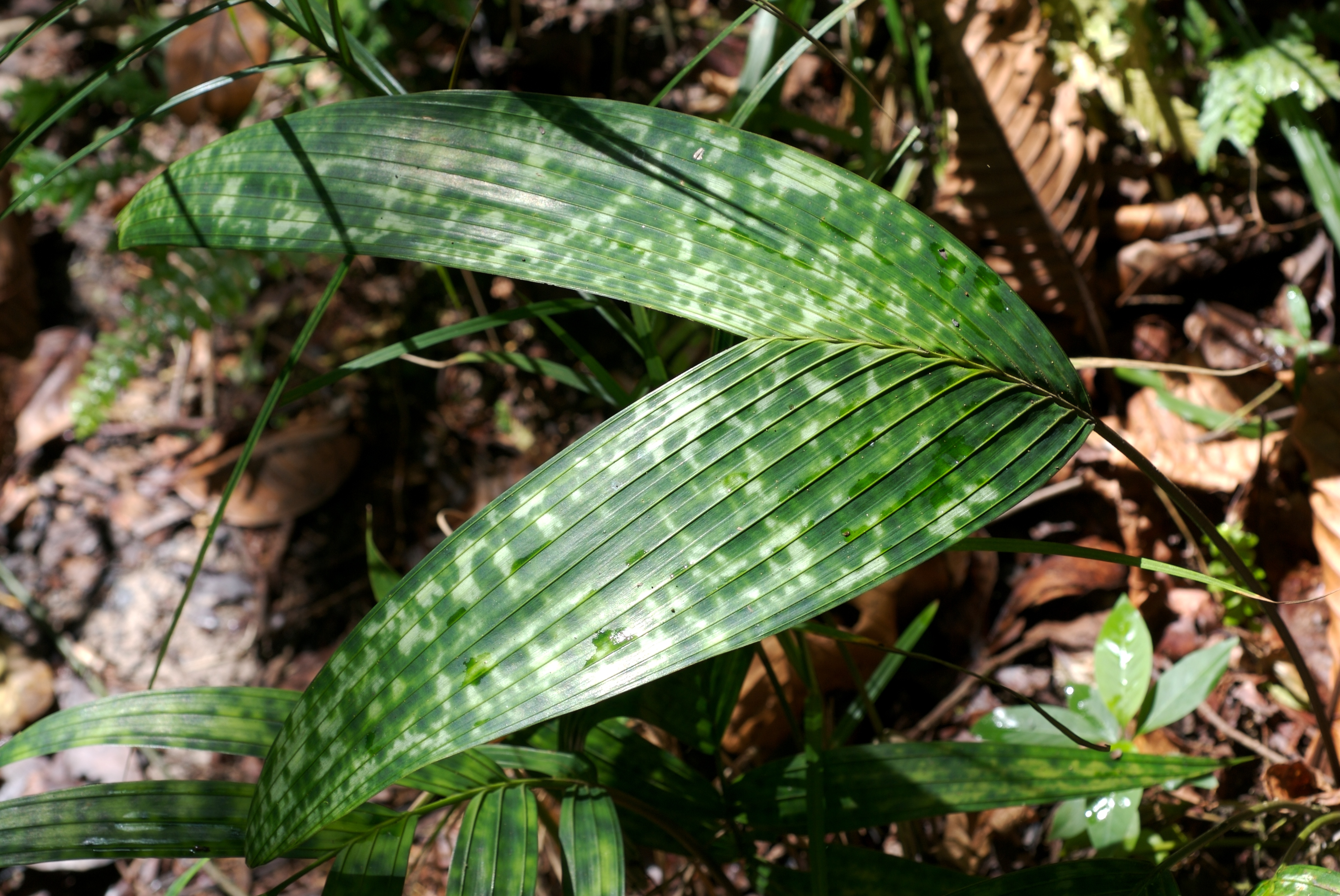 Pinanga crassipes photographed in Sarawak, Borneo